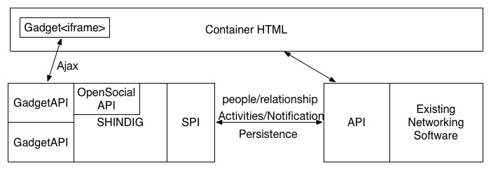 opensocial